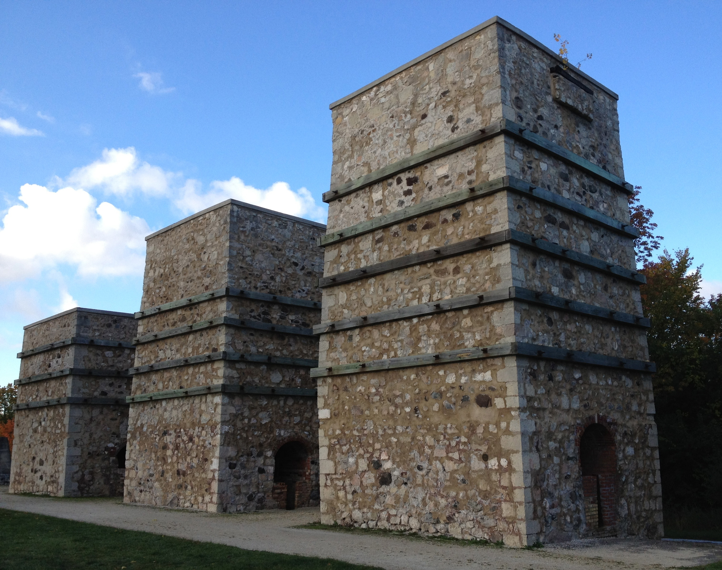 Milwaukee Falls Lime Company Of five original lime kilns, three remain as historical monuments in Lime Kiln Park in Grafton, Wisconsin.